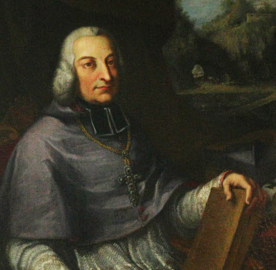 Joseph Maria von Thun und Hohenstein, prince bishop of Passau